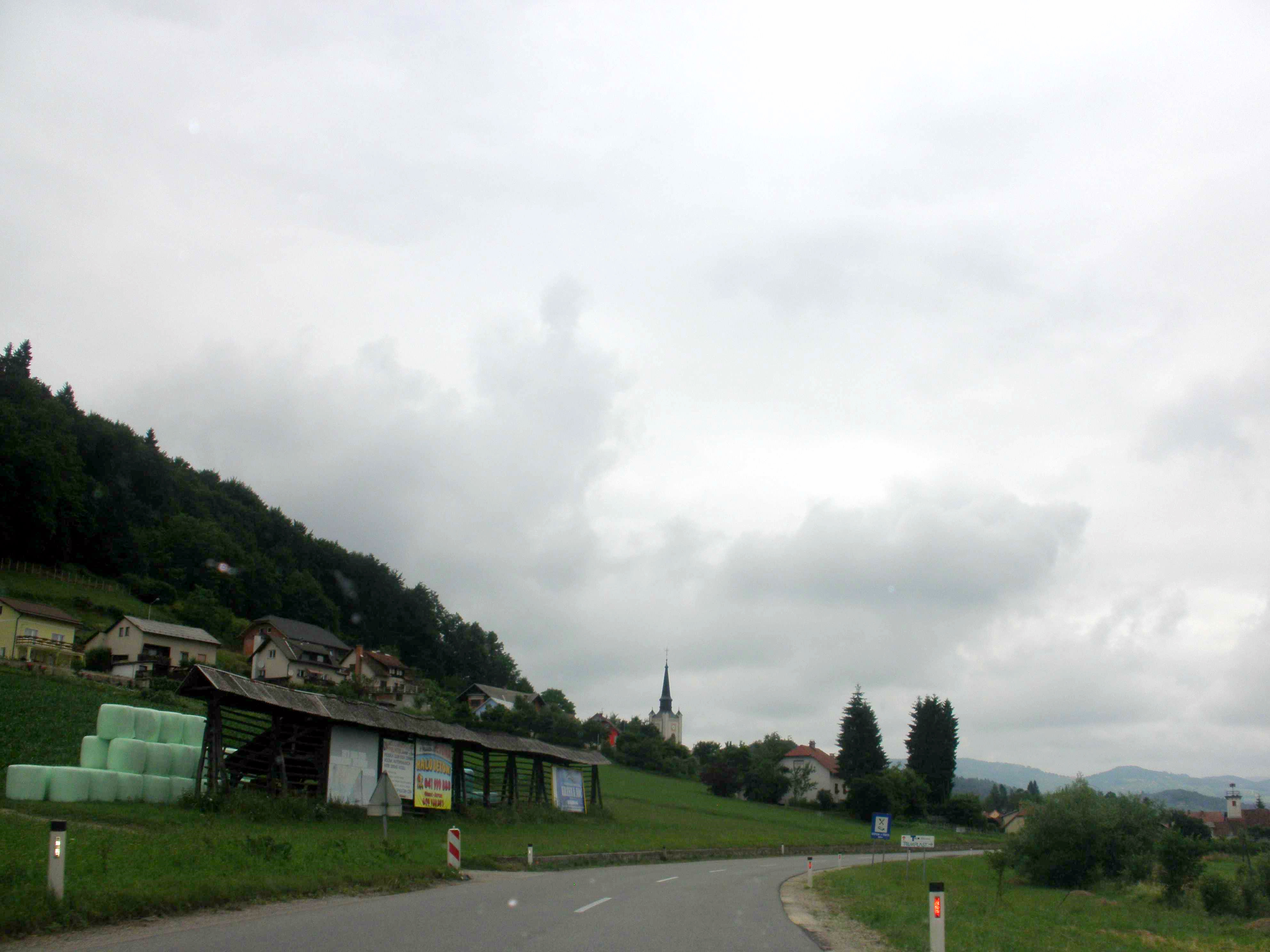 city Mirna near Trebnje, Slovenia